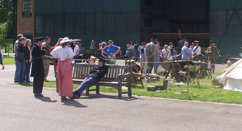 A view of the Grahame-White Factory at the Royal Air Force Museum, London, during the Hendon Pageant, 14-15 June 2008